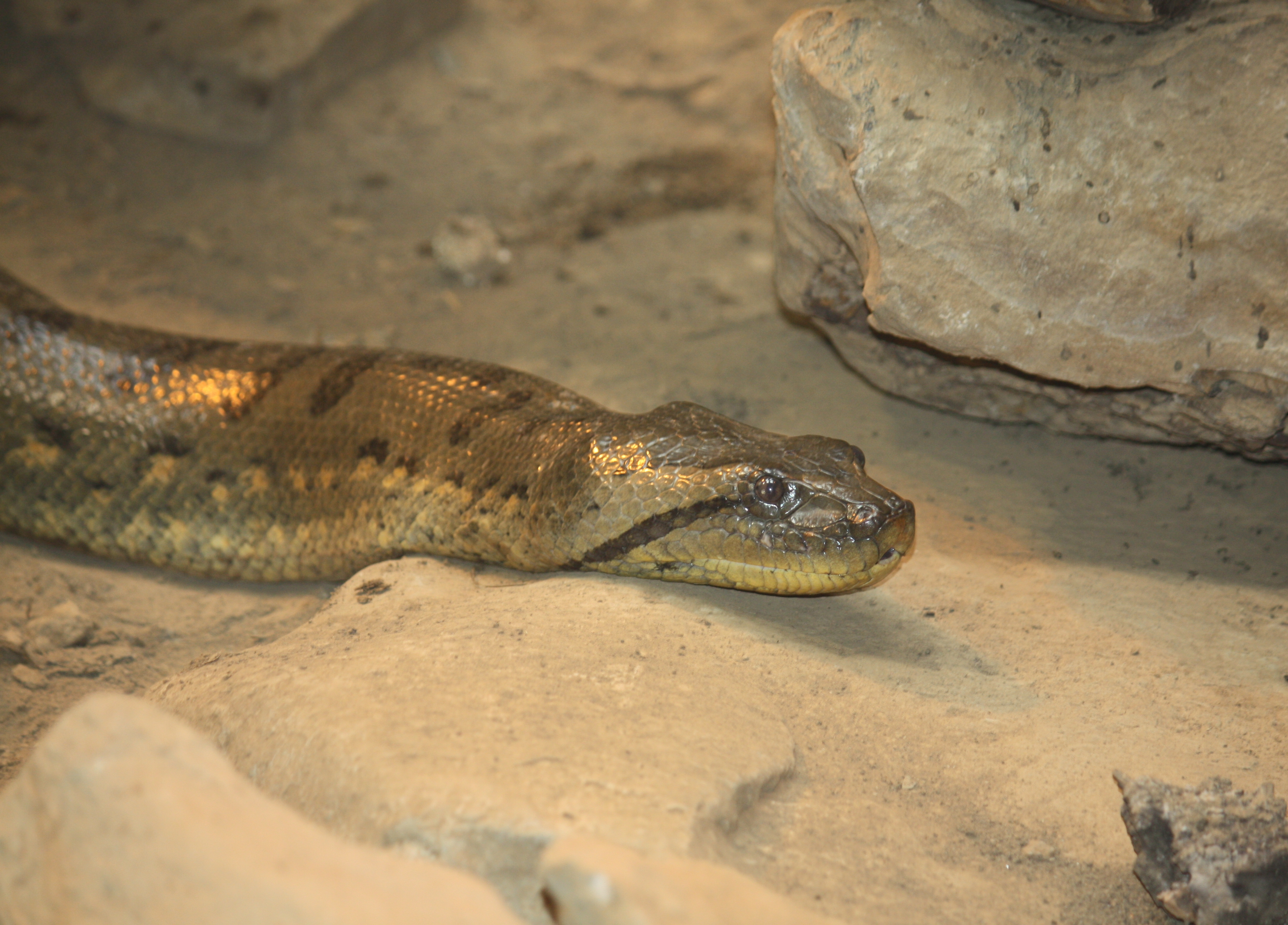 Green Anaconda (Eunectes murinus) at the Louisvill Zoo